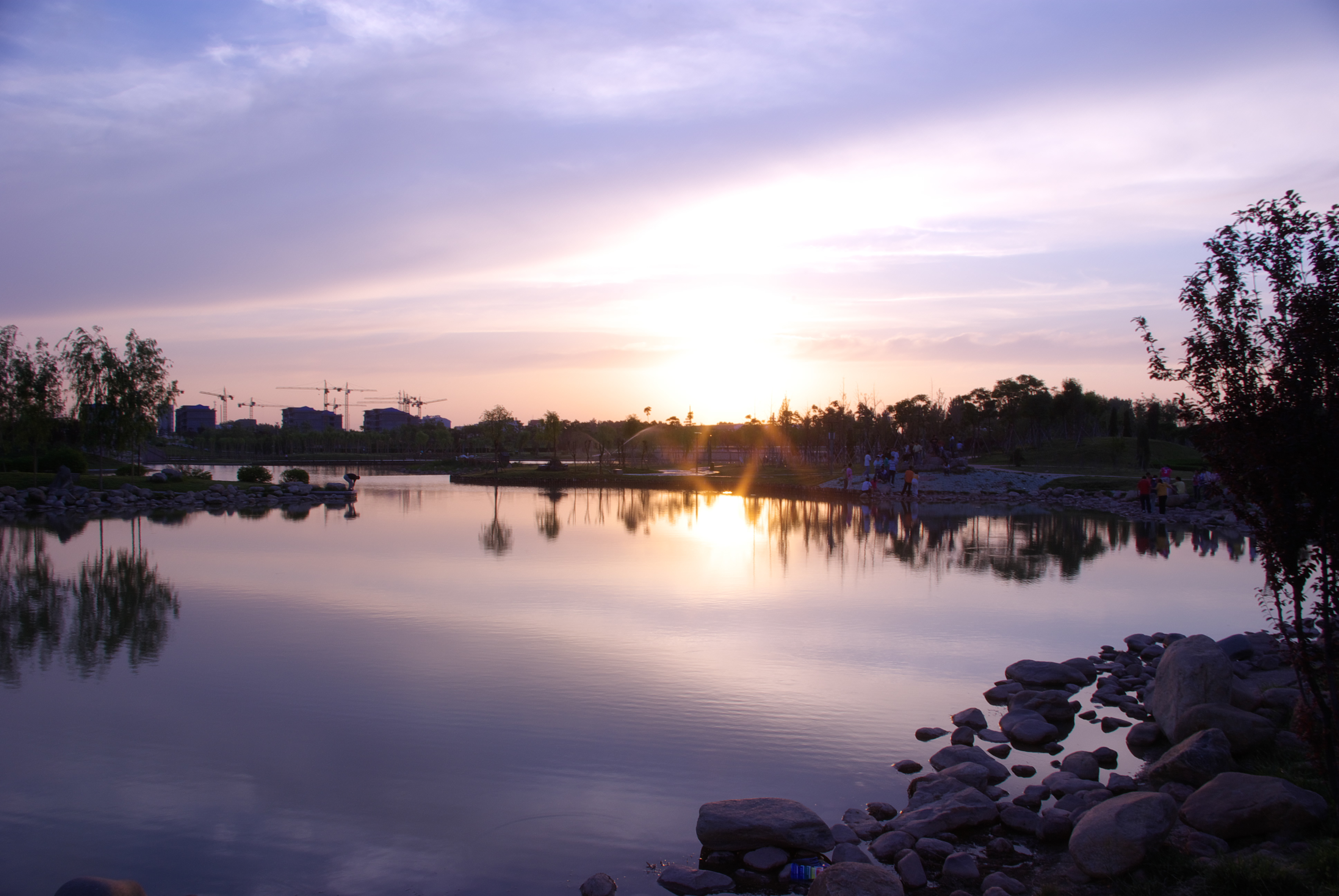 This is the park founded by the county.